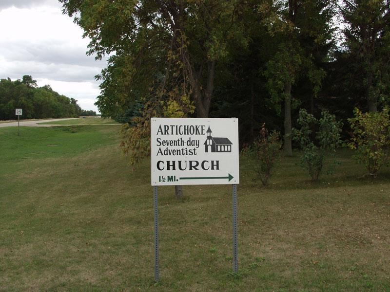 Photograph of hamlet of Artichoke, MN, taken by me, afiler.